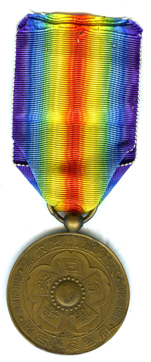 Interallied Victory Medal of WWI (Japan)